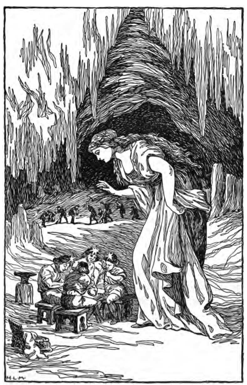 Captioned as "Freyja in the Cave of the Dwarfs".